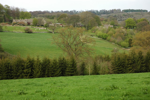 Througham Slad Througham Slad viewed from the road near Battlescombe to the south.